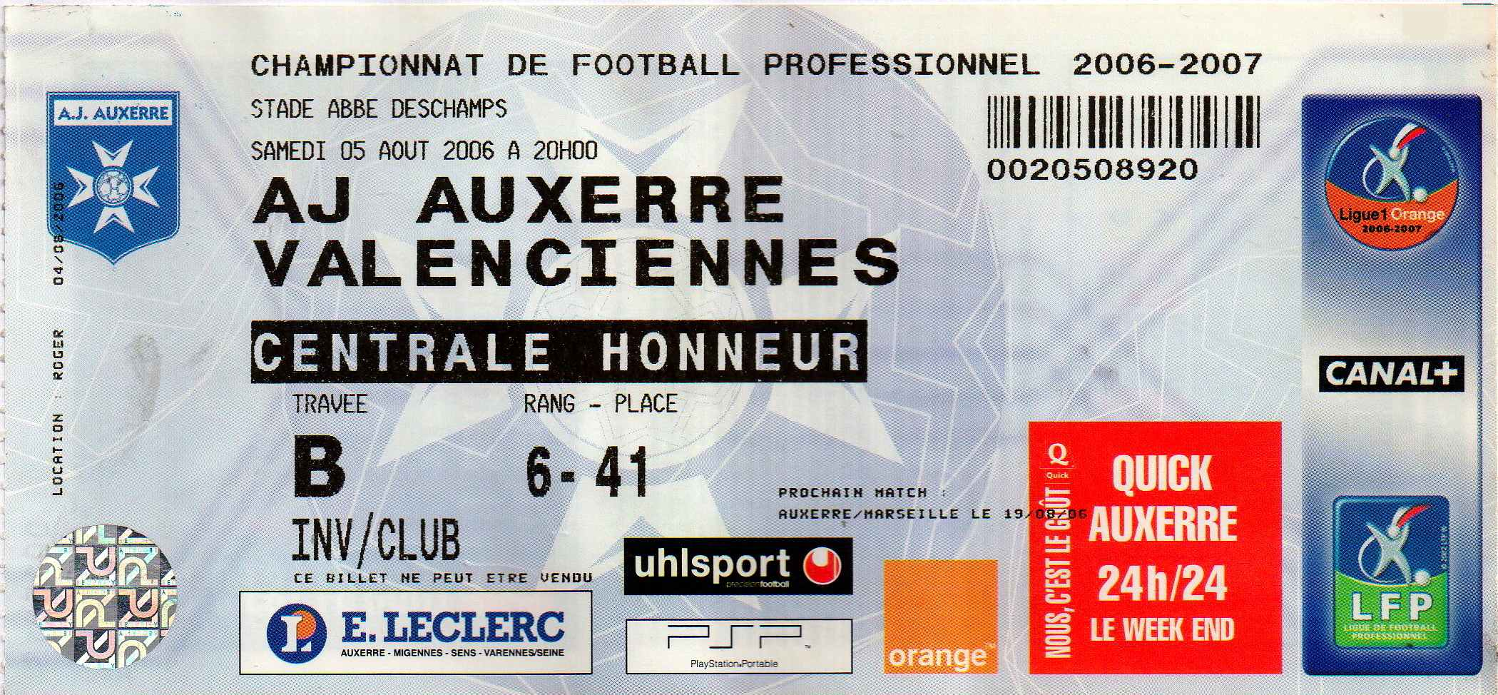 2006.08.05 Auxerre vs Valenciennes